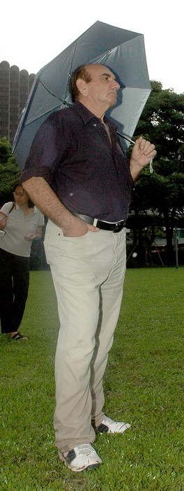 British author and former journalist Alan Shadrake listening to a speech by Jeanette Chong-Aruldoss about the mandatory death penalty at a Reform Party rally at Speakers' Corner, Singapore.